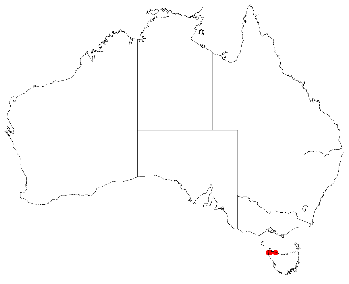 Billardiera viridiflora occurrence data from Australasian Virtual Herbarium downloaded 5 July 2018